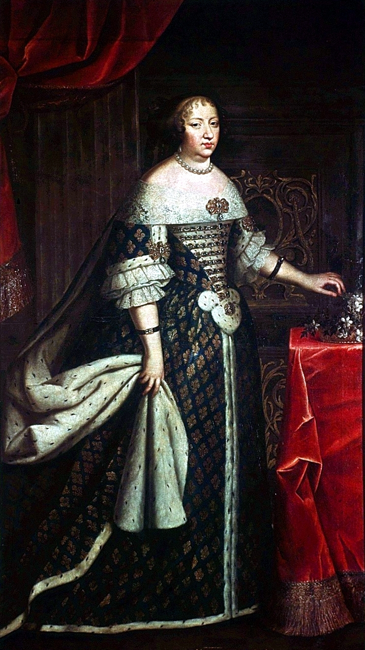 copie autrichienne d'après Beaubrun